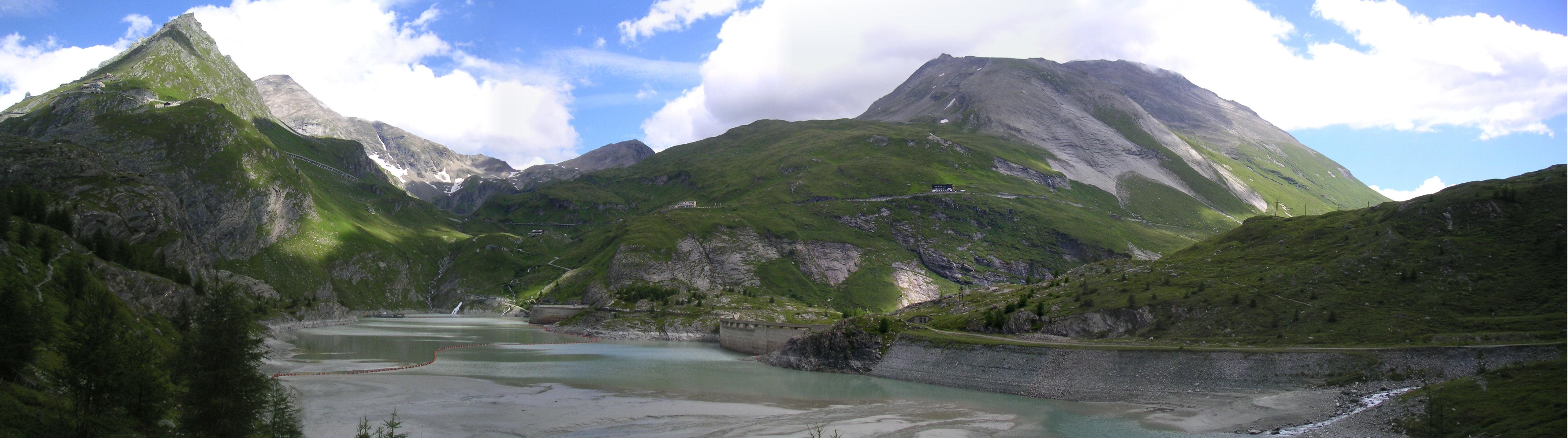 The Grossglockner High Alpine Road and its surroundings. The road descends over bridges across the left peak, passing along the center buildings, and then winding back downhill at the end of the lake, to follow along the right bank.)